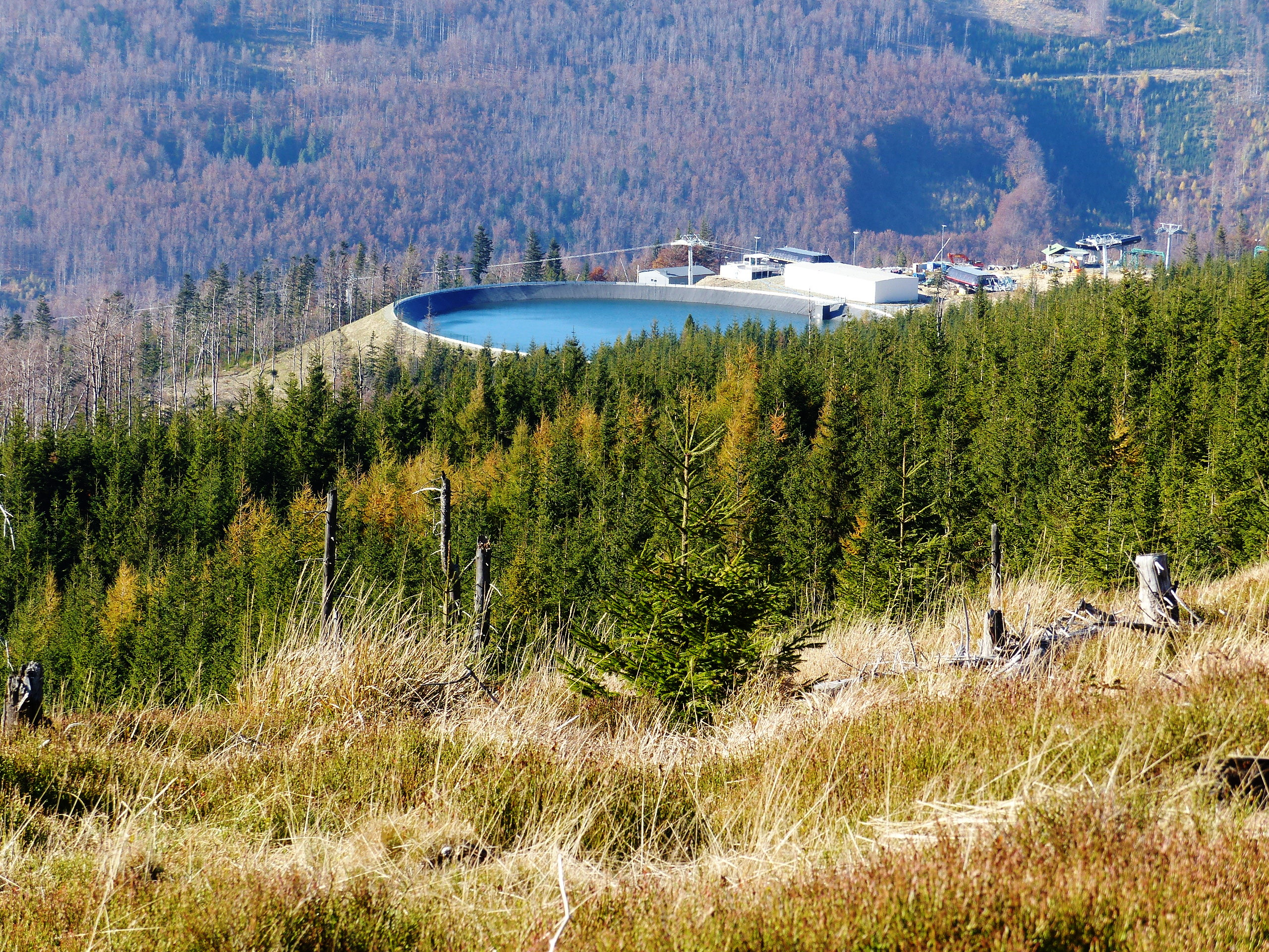 A water reservoir for ski resort on Małe Skrzyczne